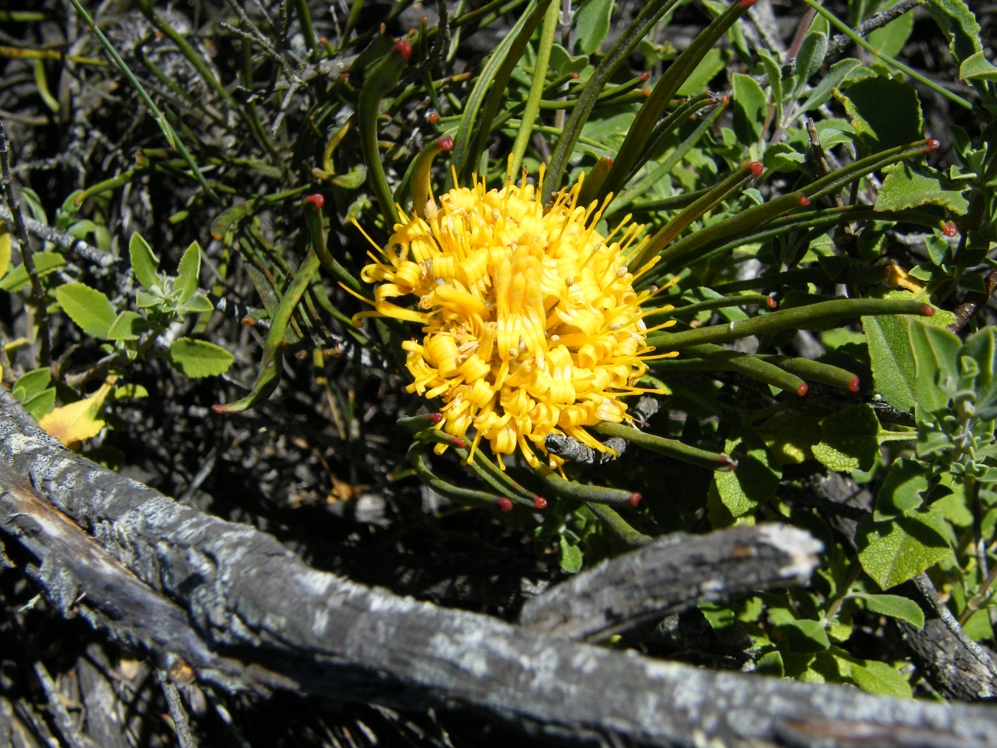 Gray snakestem pincushion variety